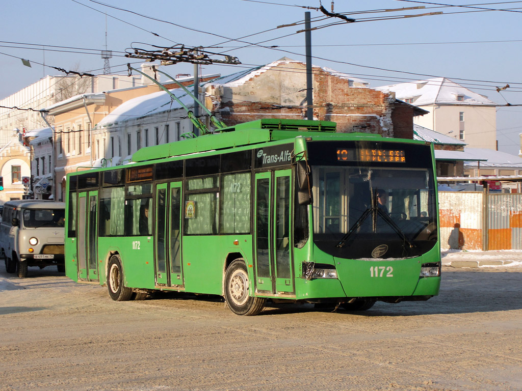 Trolleybus in Kazan